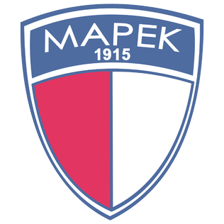 The old club logo of PFC Marek Dupnitsa